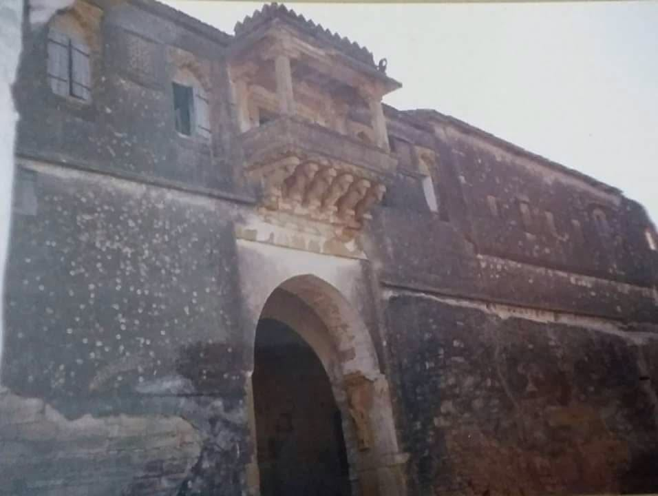 Fort (Seating Area) of sandhan Jagir, which is sitvated in Viilage of Sandhan, Abdasa Taluka,Dist Bhuj Kutch-Gujarat